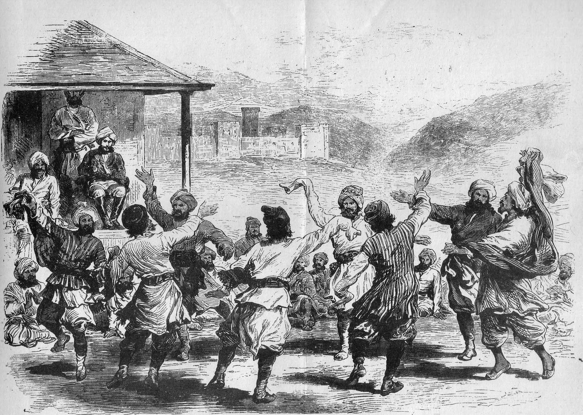 Published in G. W. Leitner's book, Dardistan in 1866, 1886, and 1893. Published in 1893. No copyright.